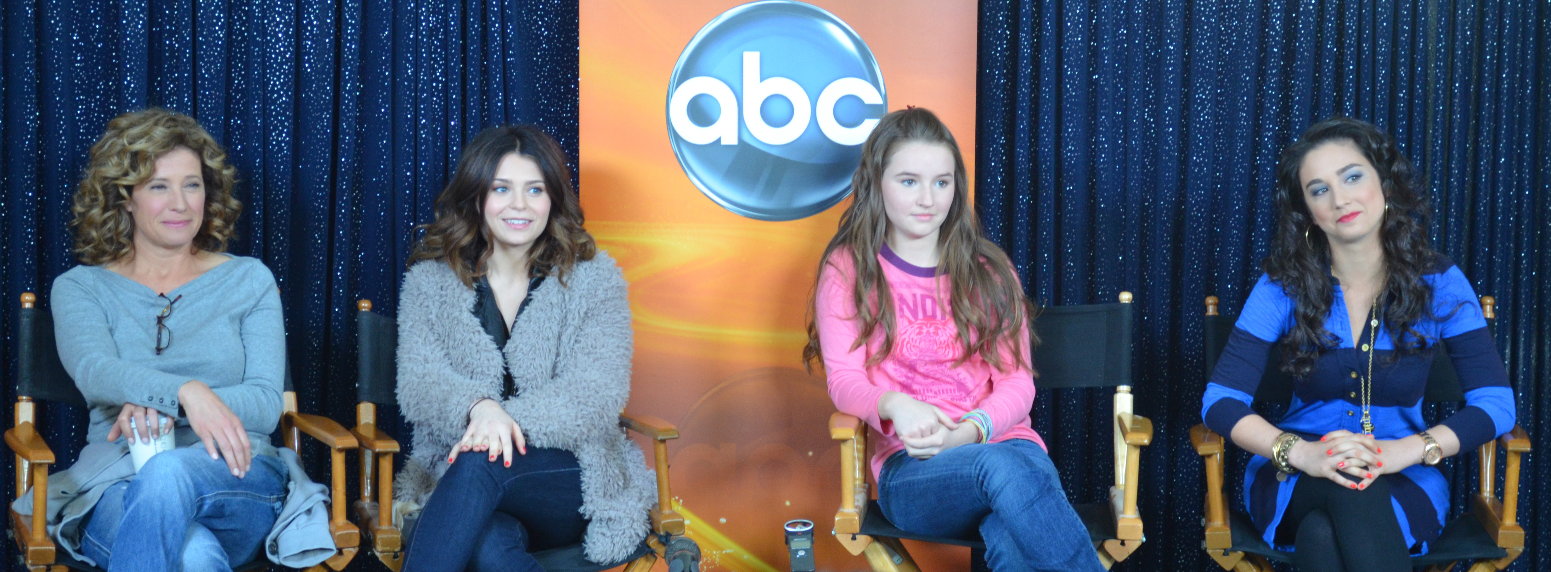 Nancy Travis, Molly Ephraim, Kaitlyn Dever and Alexandra Krosney